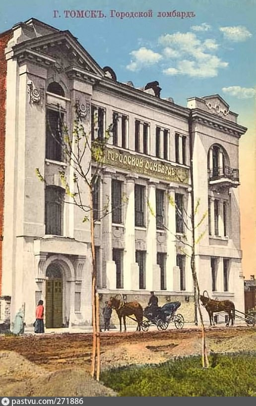 Post card